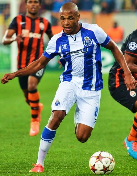 Yacine Brahimi